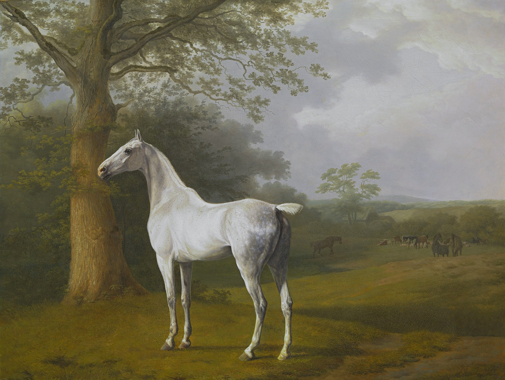 Probably painted for Lord Rivers in Stratfieldsaye in 1806-1807